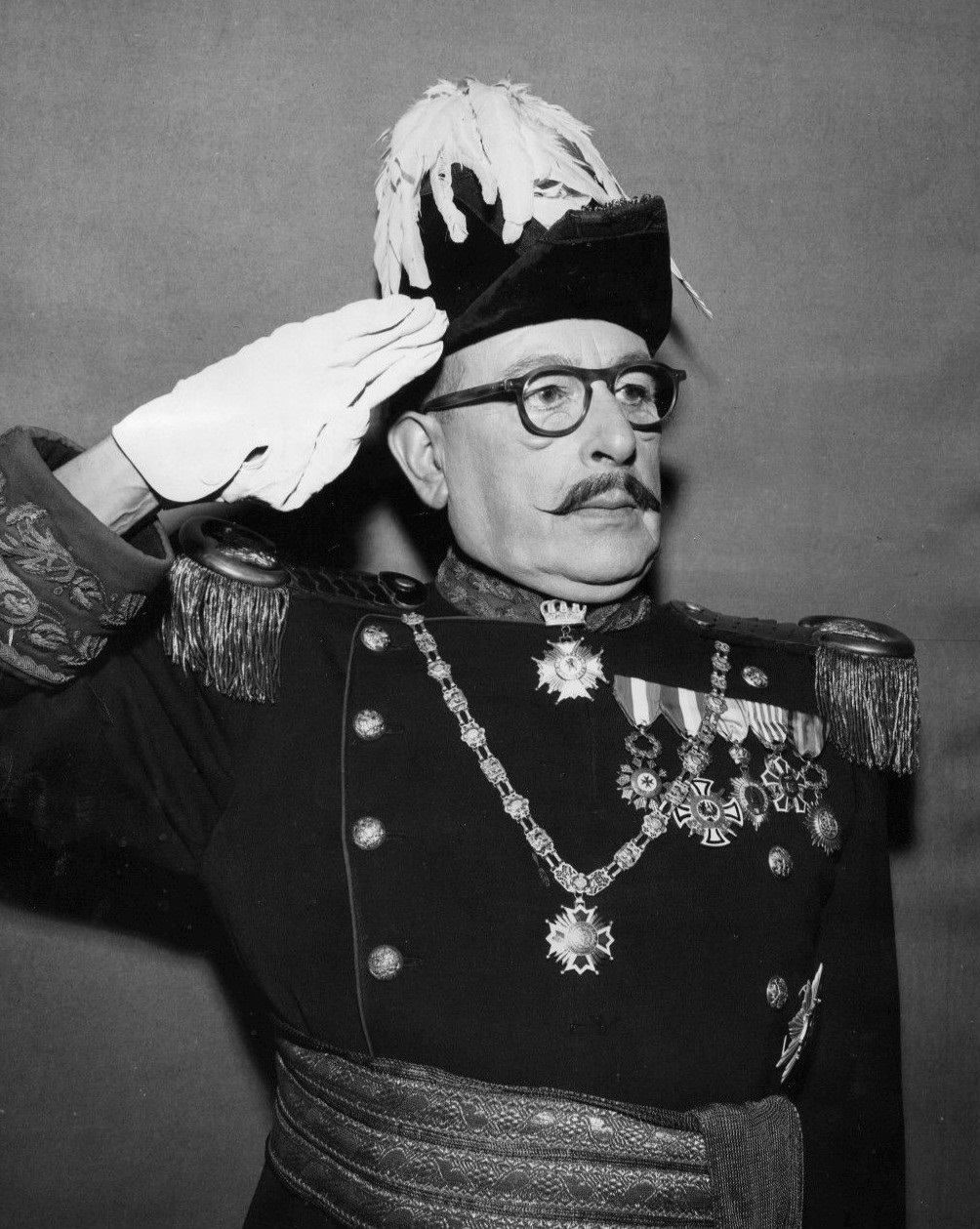 Photo of Sir Cedric Hardwicke in the Cameo Theatre presentation of George Bernard Show's "The Inca of Perusalem". The item has no copyright markings on it as can be seen in the links above.